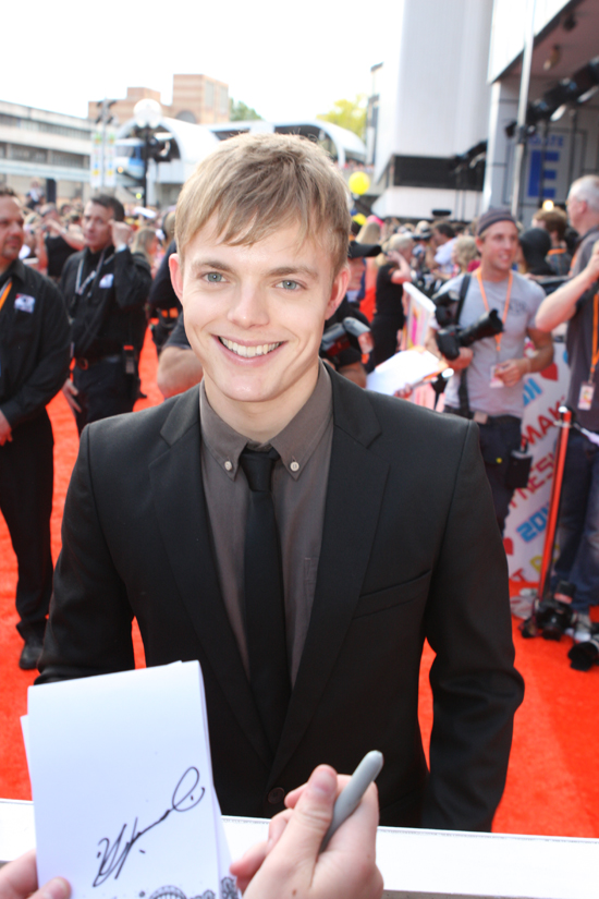 Actor David Jones-Roberts at the Nickelodeon Kid's Choice Awards 2011 in Australia